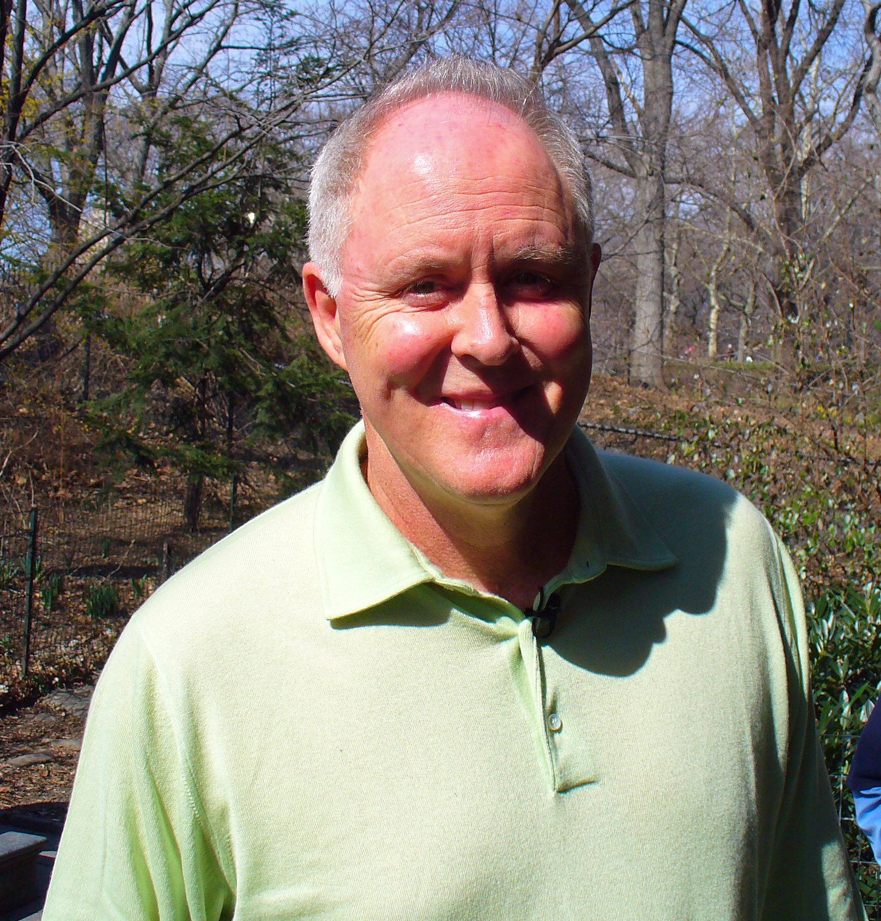 John Lithgow in Central Park